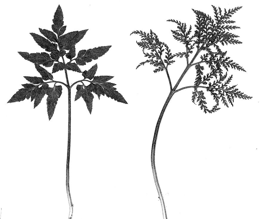 Grayscale image (can't find the original color) of the different leaf forms of Botrychium dissectum (syn. Sceptridium dissectum.